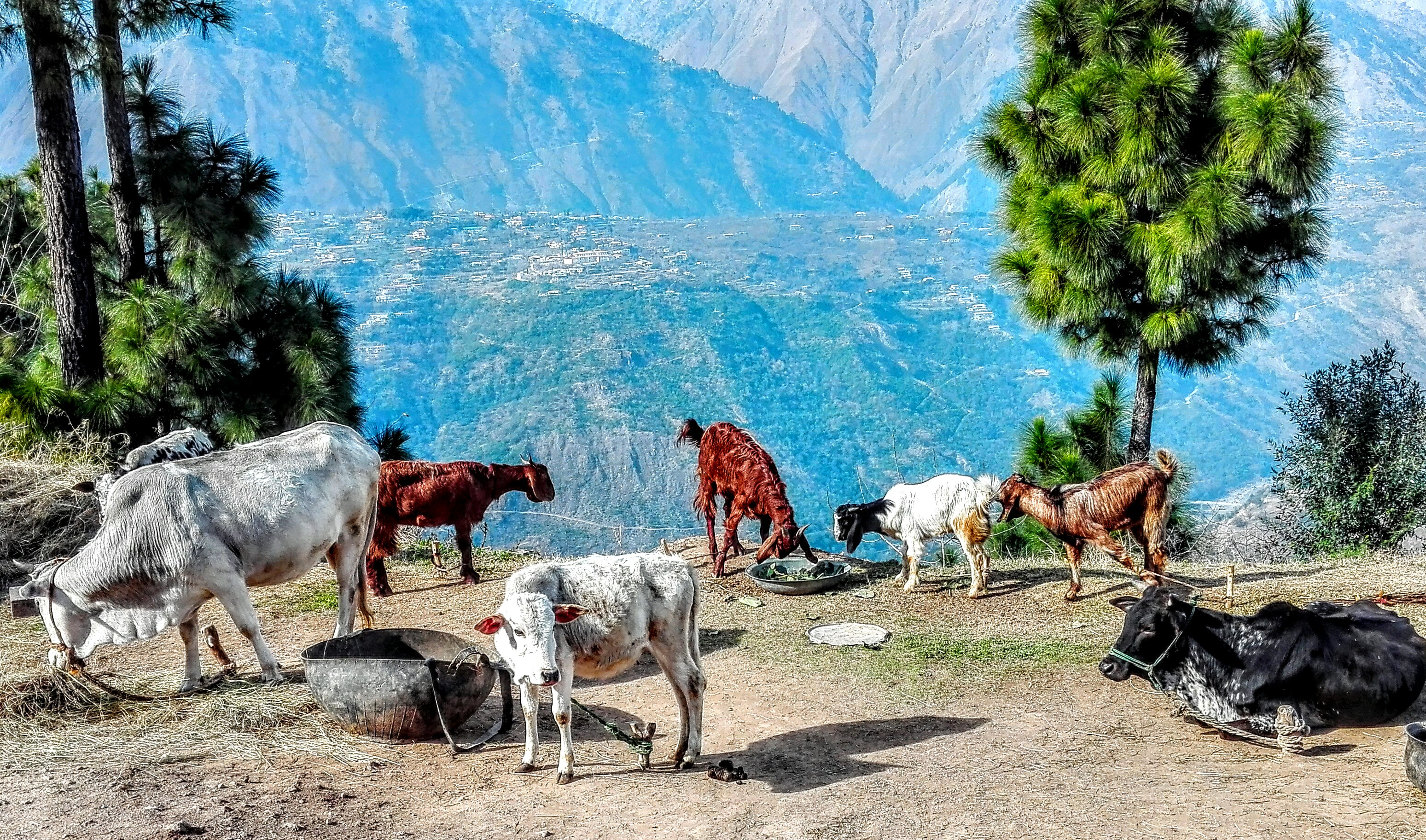 cattles in azad kashmir